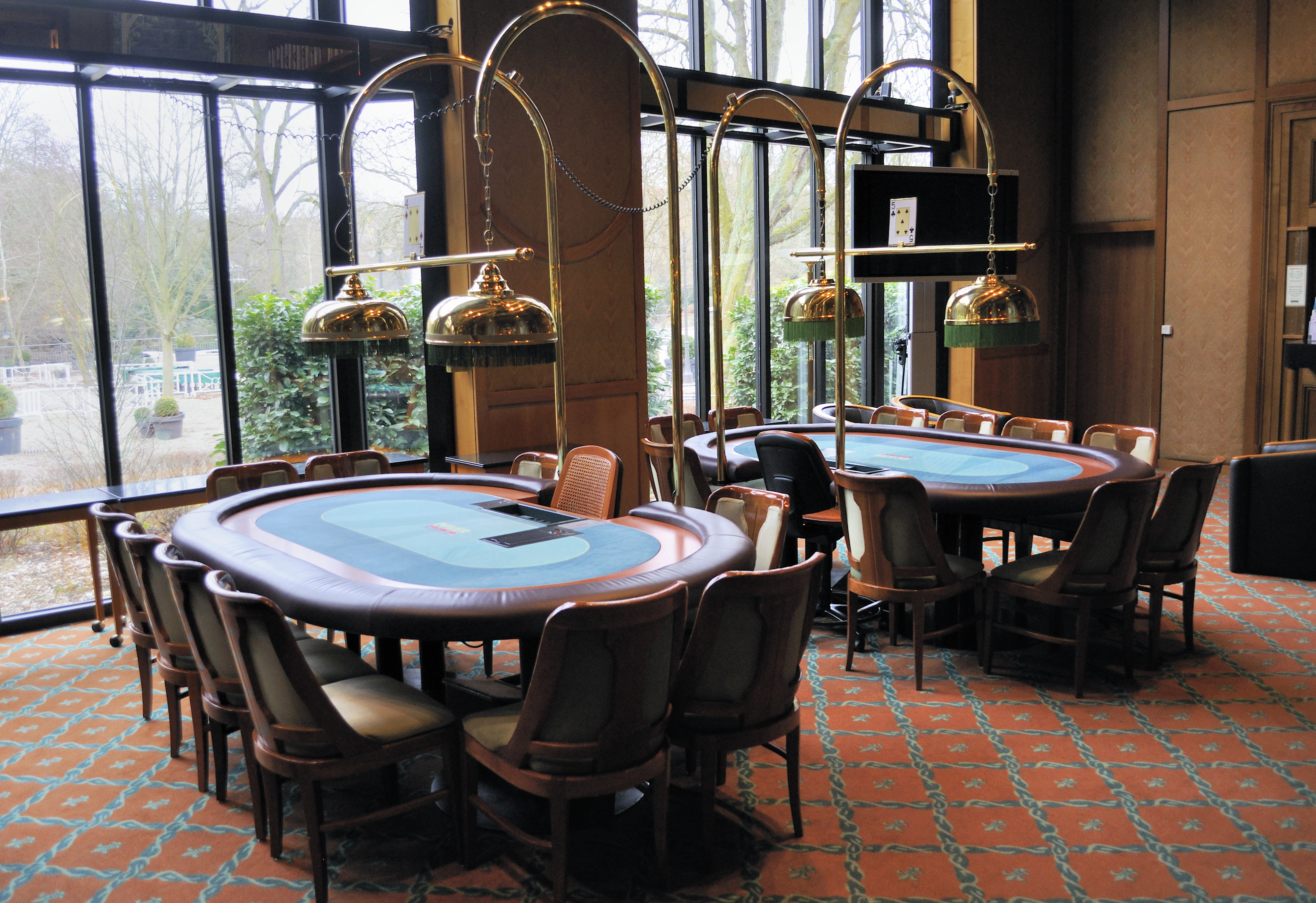 Spielbank Wiesbaden (Germany).